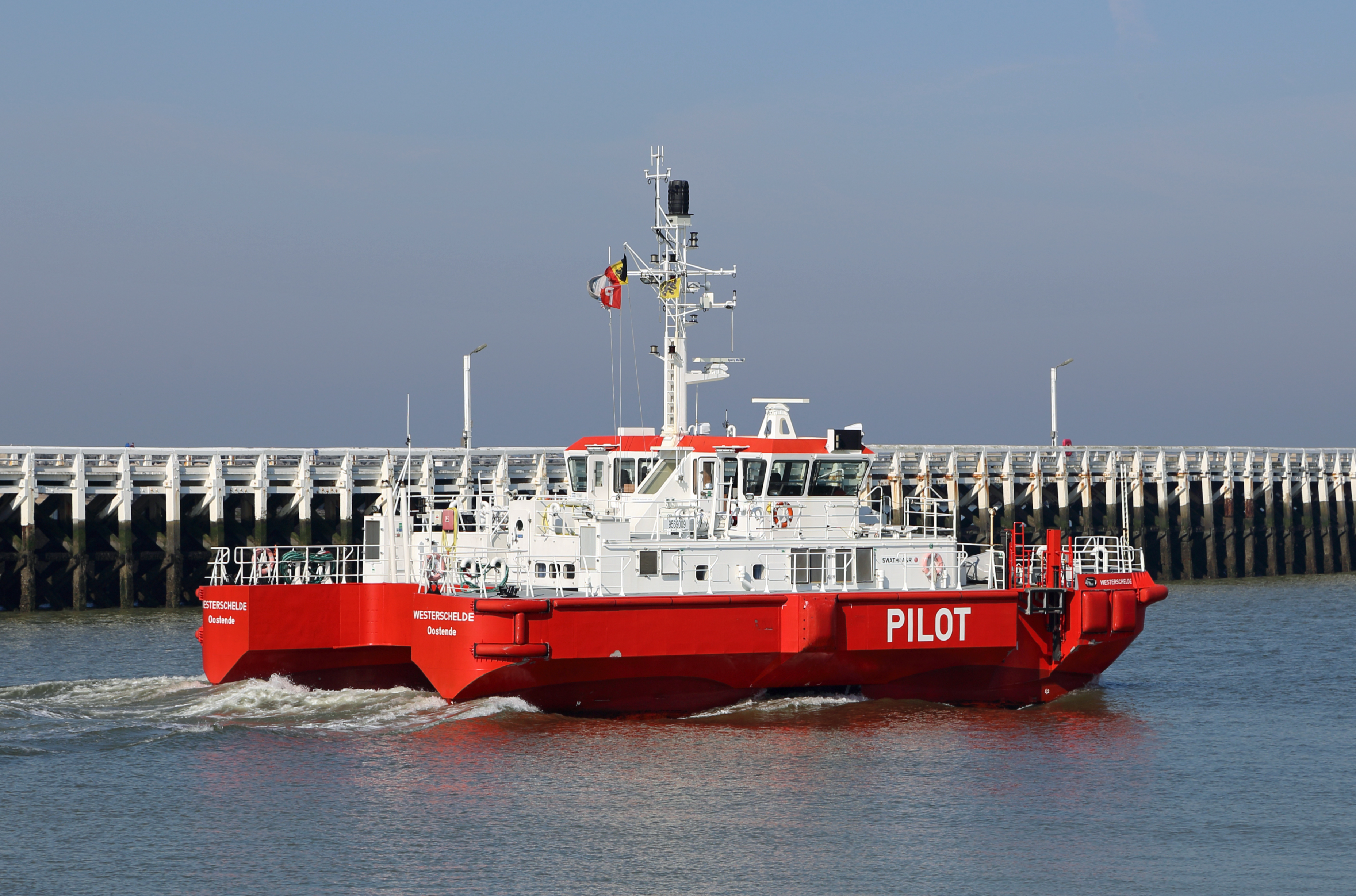 Belgian pilot boat Westerschelde leaving Ostend harbour (Belgium)